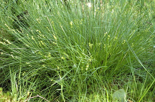 Picture taken in Commanster, Belgian High Ardennes . Species: Carex echinata